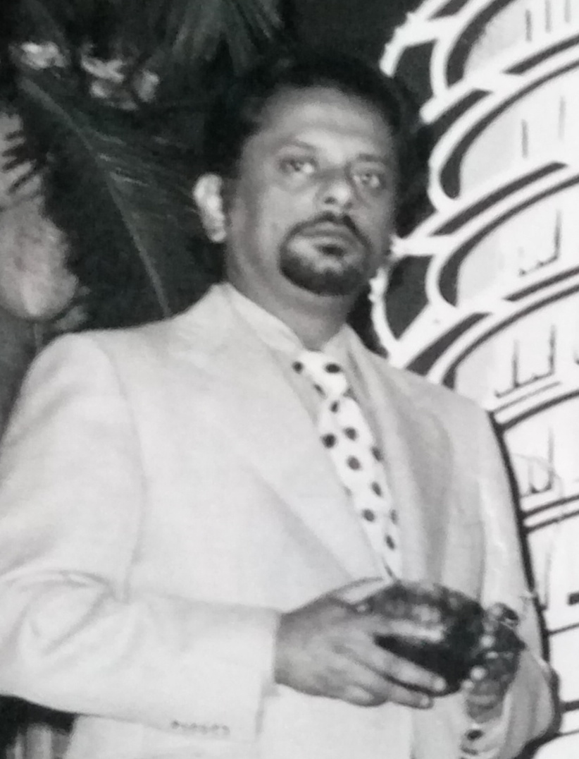 Roel Kruize (Bovema Director), Bhaskar Menon (Chairman of EMI Music Worldwide and Capitol Records), Jack Jersey (artist)